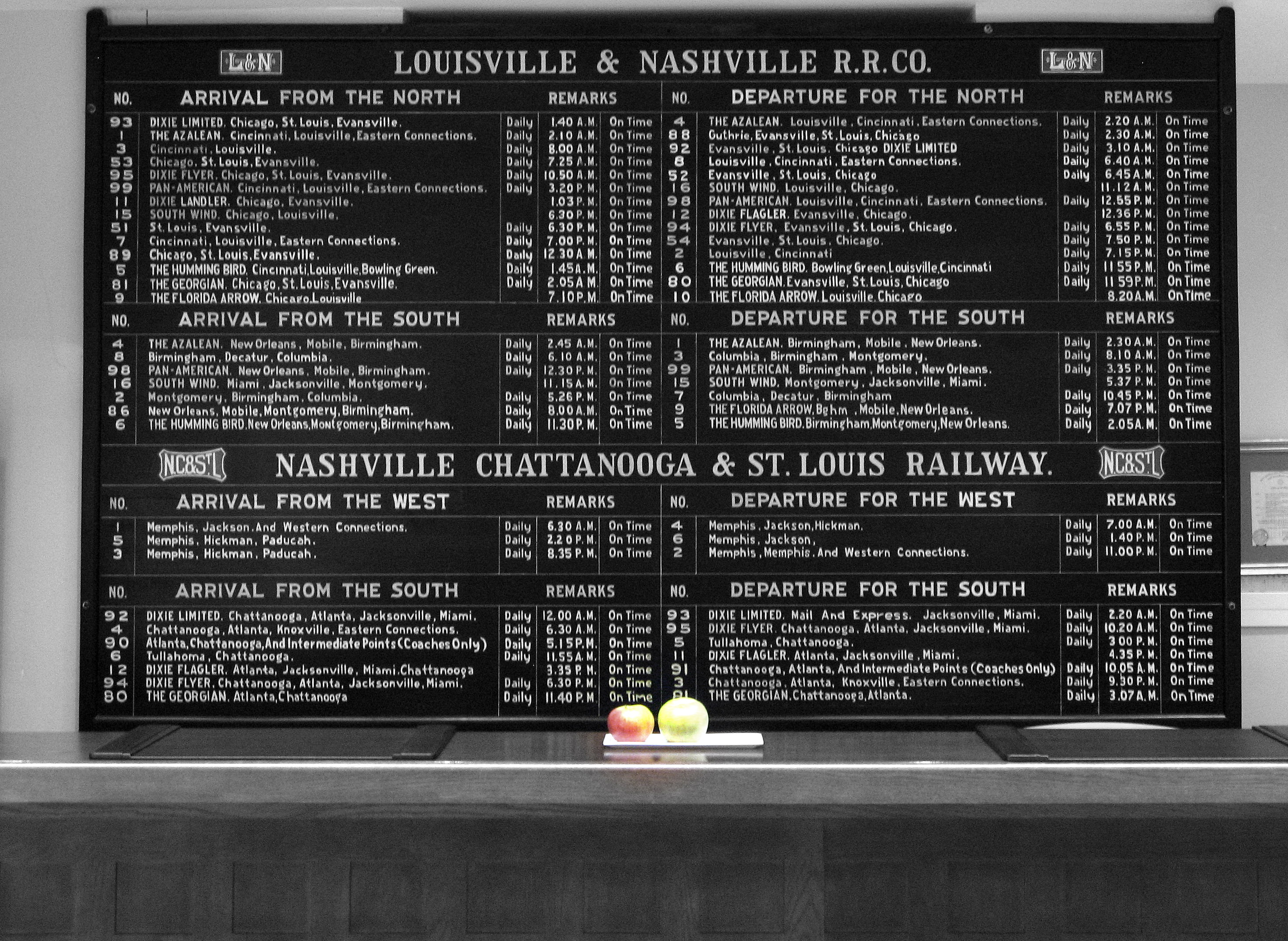 Historic arrivals and departures board inside Union Station, in Nashville, Tennessee.